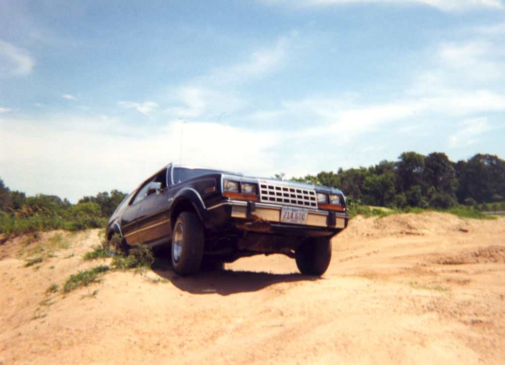 AMC Eagle station wagon crests an earthen berm in eastern Iowa.